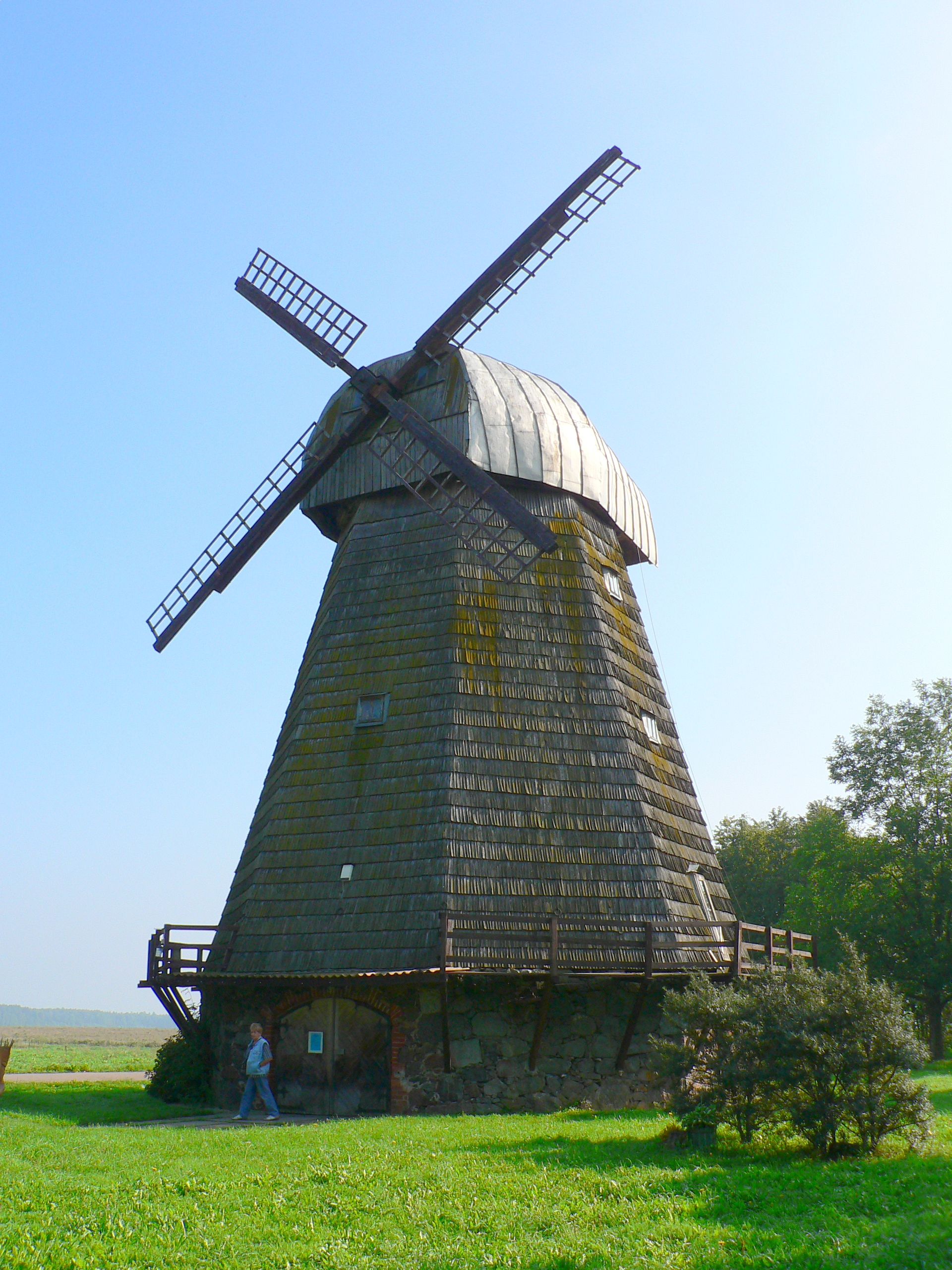 Wooden windmill in Stultiskiai near Upytė, Lithuania